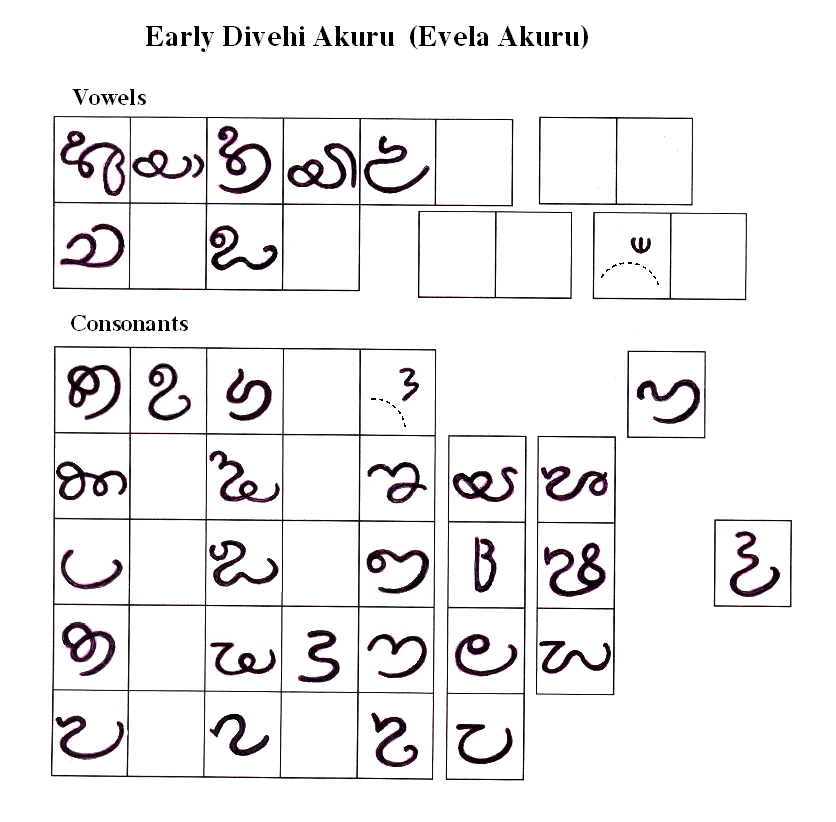 own drawing Drawing for the reedition of Bodufenvaluge Sidi's book "Divehi Akuru" by Xavier Romero-Frias.